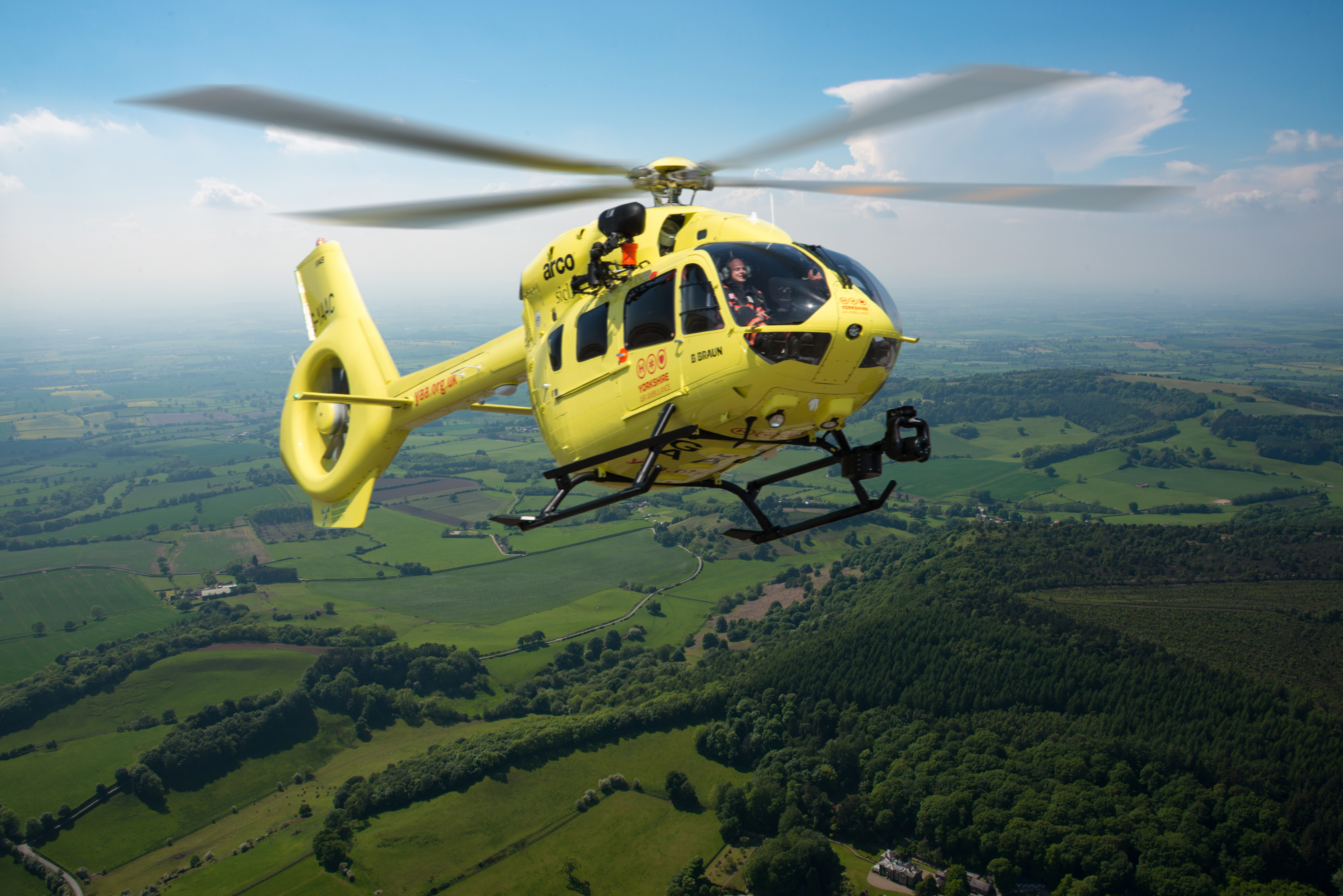 YAA Helicopter